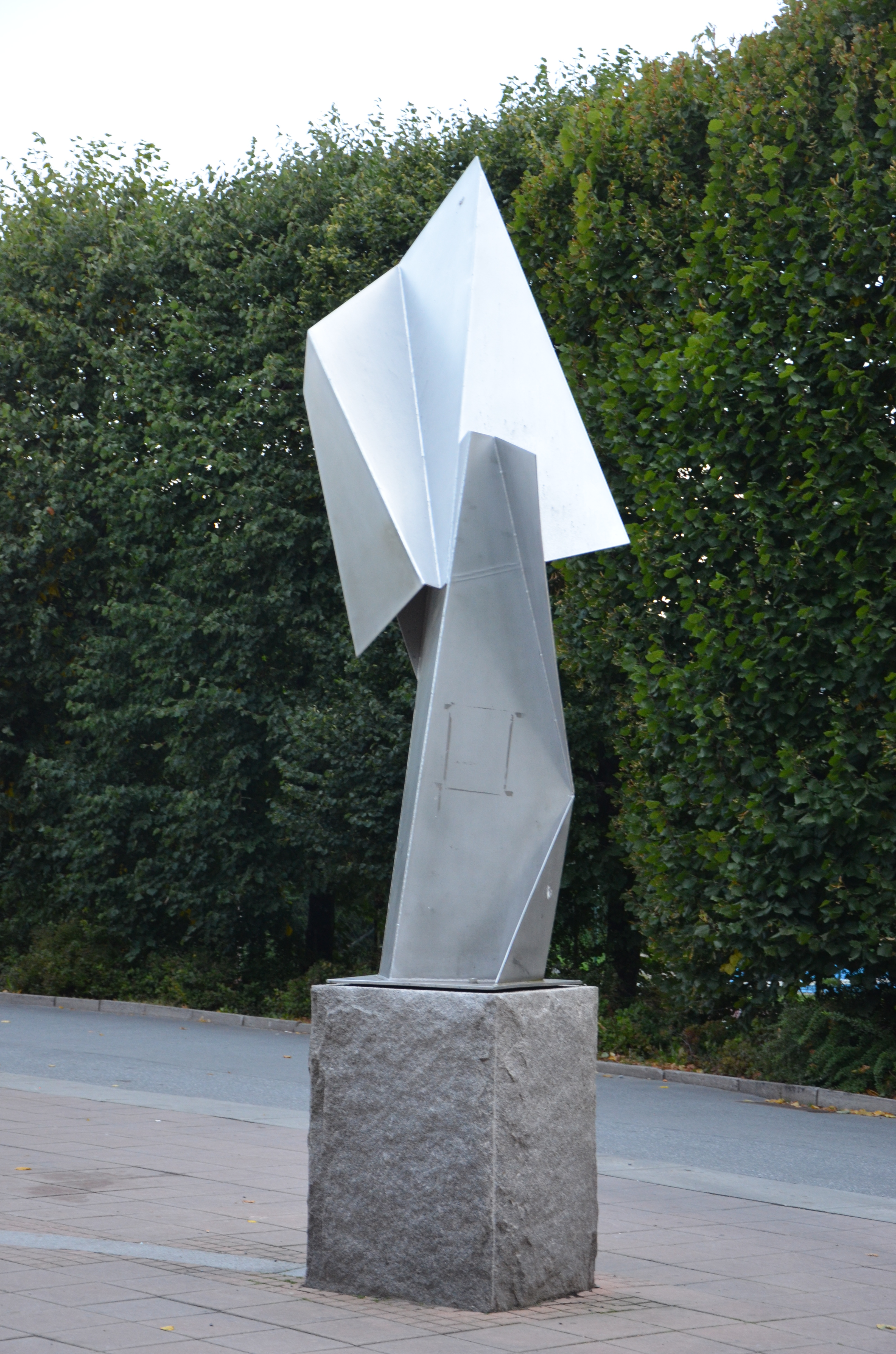 Torsten Treutiger Nike, Biblioteksgången i Täby centrum, rostfritt stål, 2001